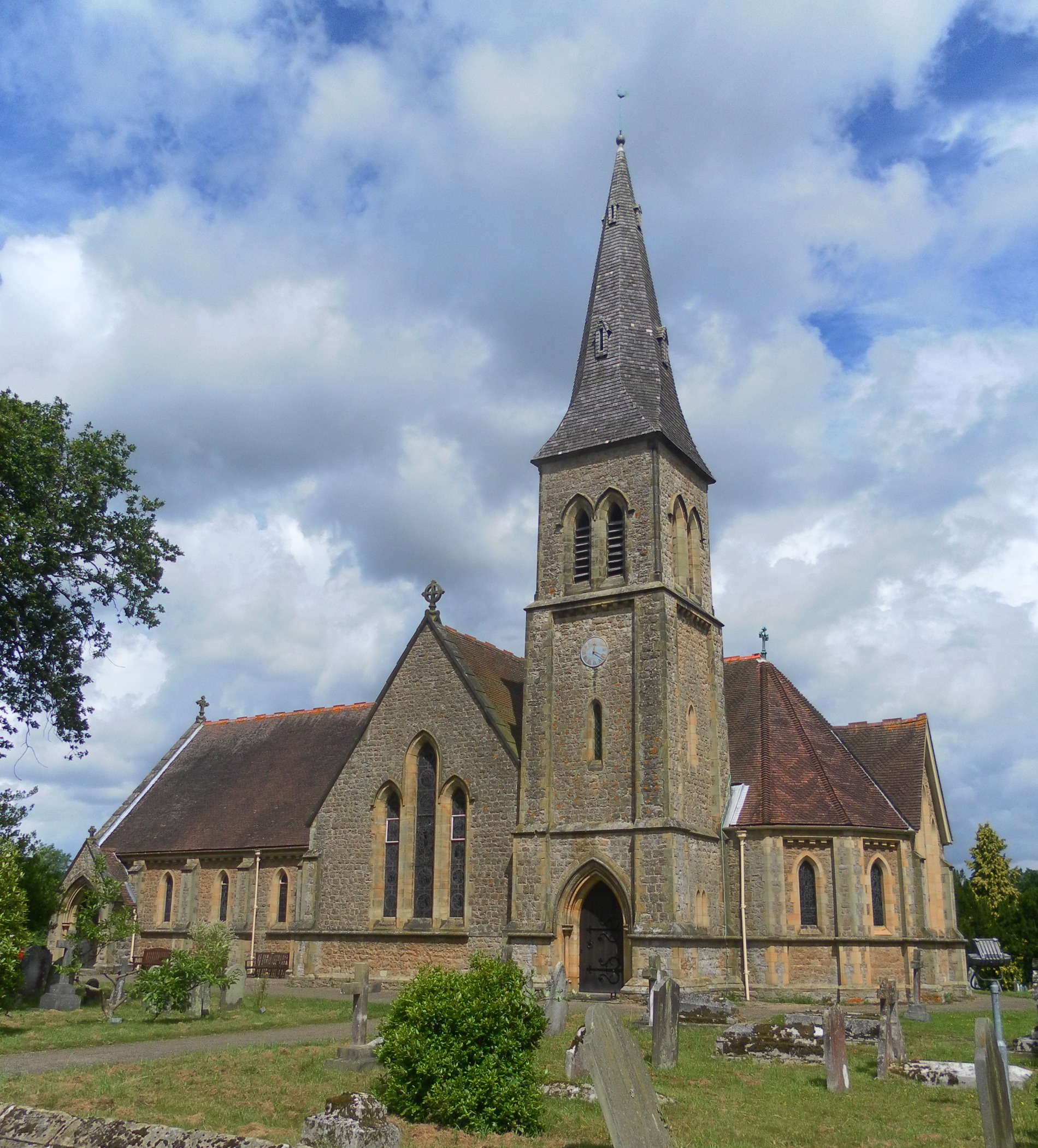 St John the Evangelist parish church, London Road, Hildenborough, Kent, England. Built in the 19th century for Hildenborough village, which was then in the large parish of Tonbridge. It is now separately parished.